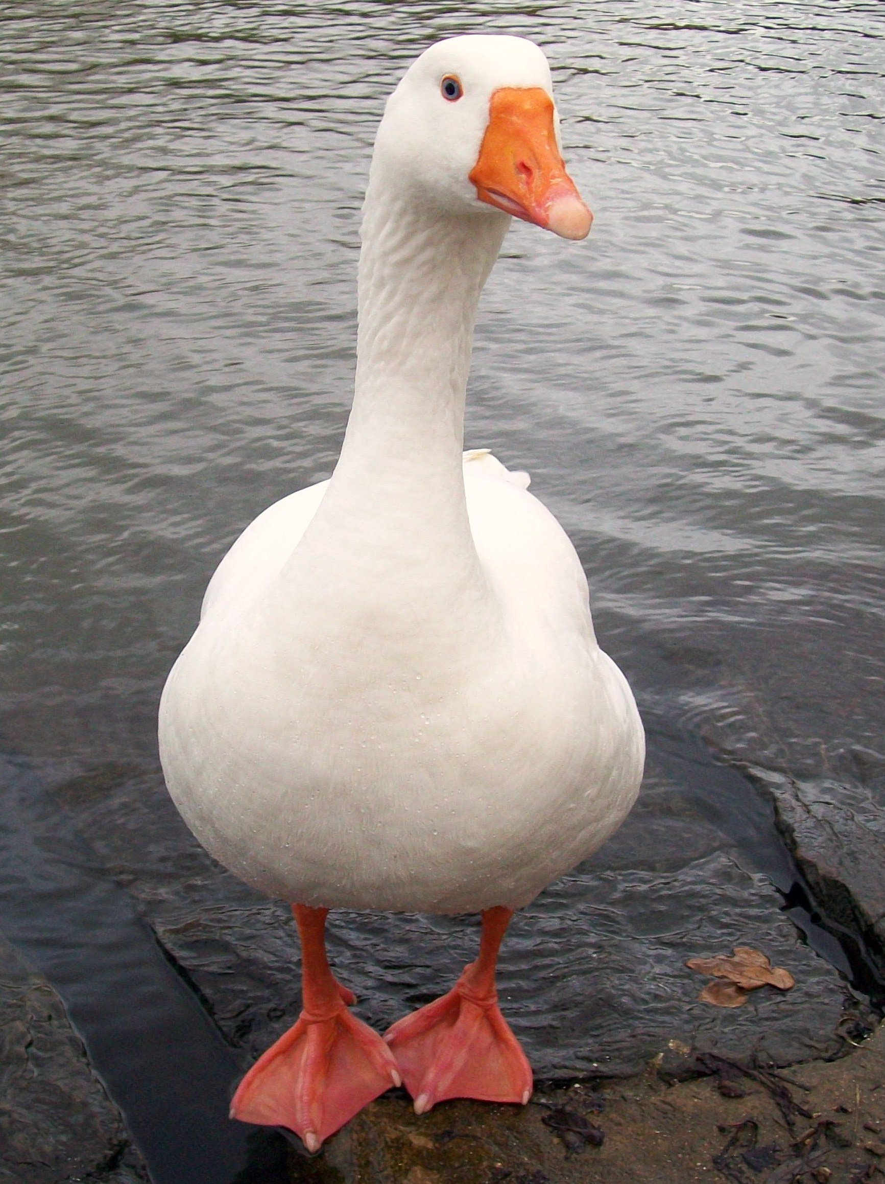 Domestic goose (Anser anser domesticus). Feeding the birds at Fairlands Valley Park, Stevenage, 6 February 2011. This goose, and a few others, were just waiting patiently in front of me to give them more bread. It was eating out of my hands. A couple of them were even coming out of the water and sneaking up behind me!